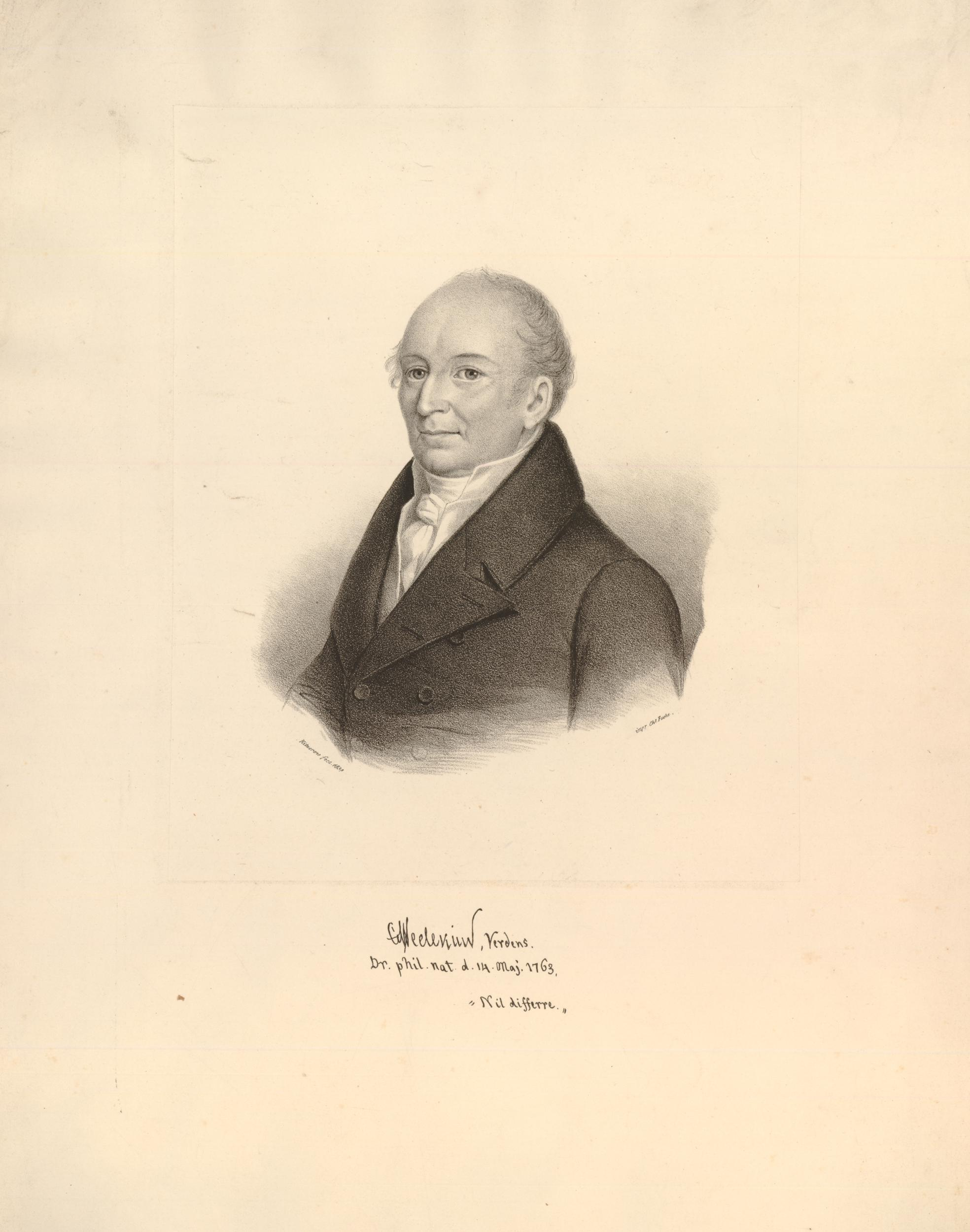 Portrait of the historian Anton Christian Wedekind; half-length, facing three-quarters to elft, wearing double-breasted coat, waistcoat and cravat. 1828 Lithograph on chine collé